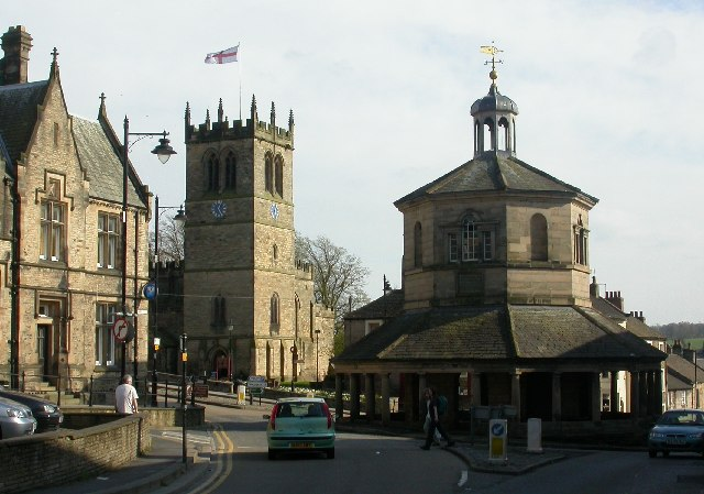 The centre of Barnard Castle, County Durham. Centre right is the butter market. On the left is part of Barclay's Bank. Between them is the west tower of St Mary's parish church.